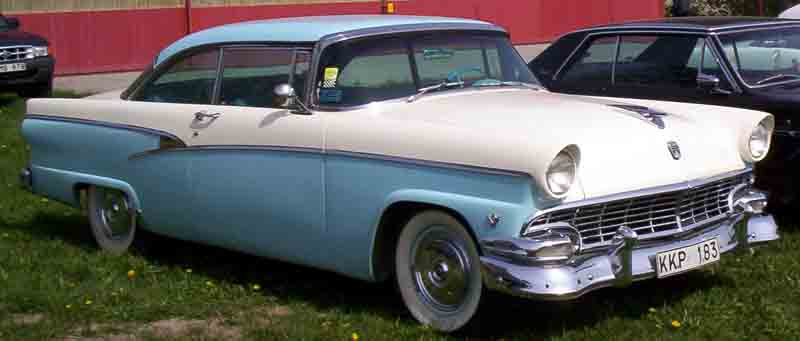 1956 Ford Customline Victoria hardtop